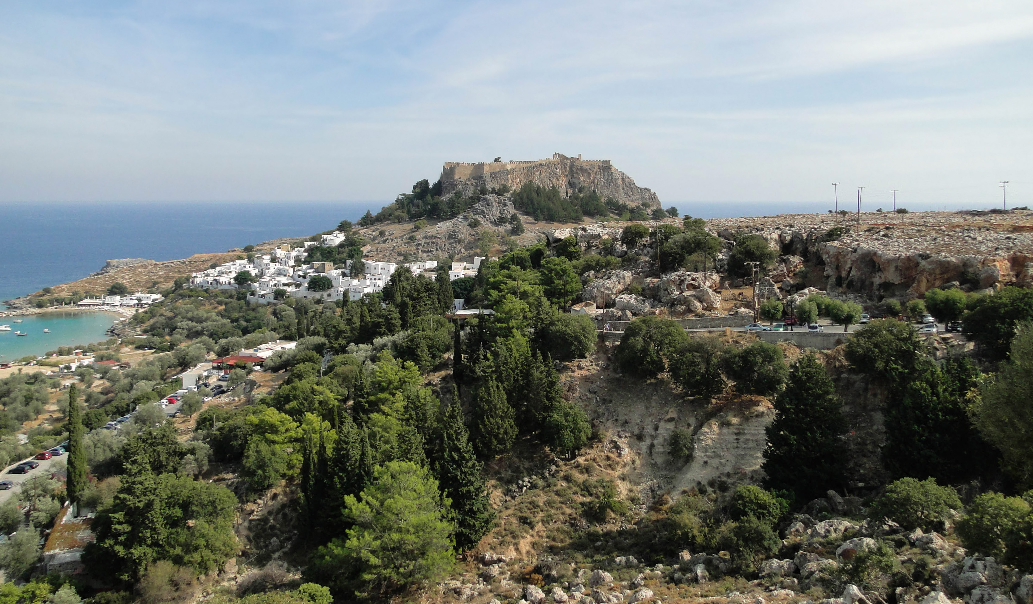 View of the Acropolis of Lindos, Rhodes, Greece